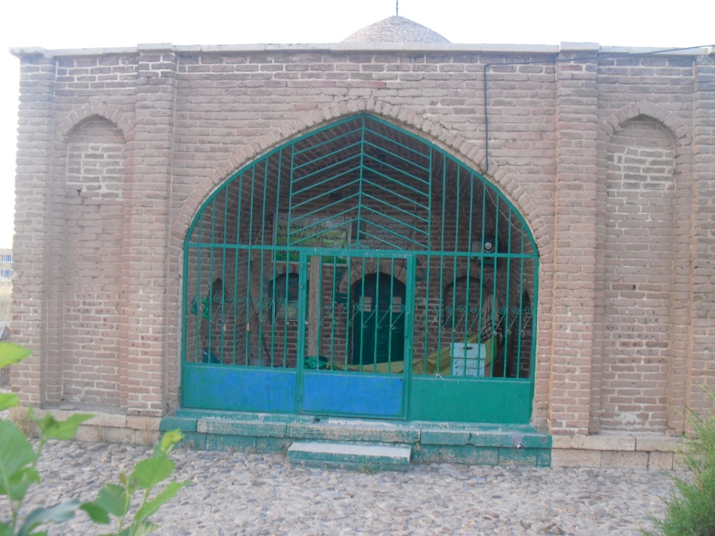 Bodagh Sultan Tomb